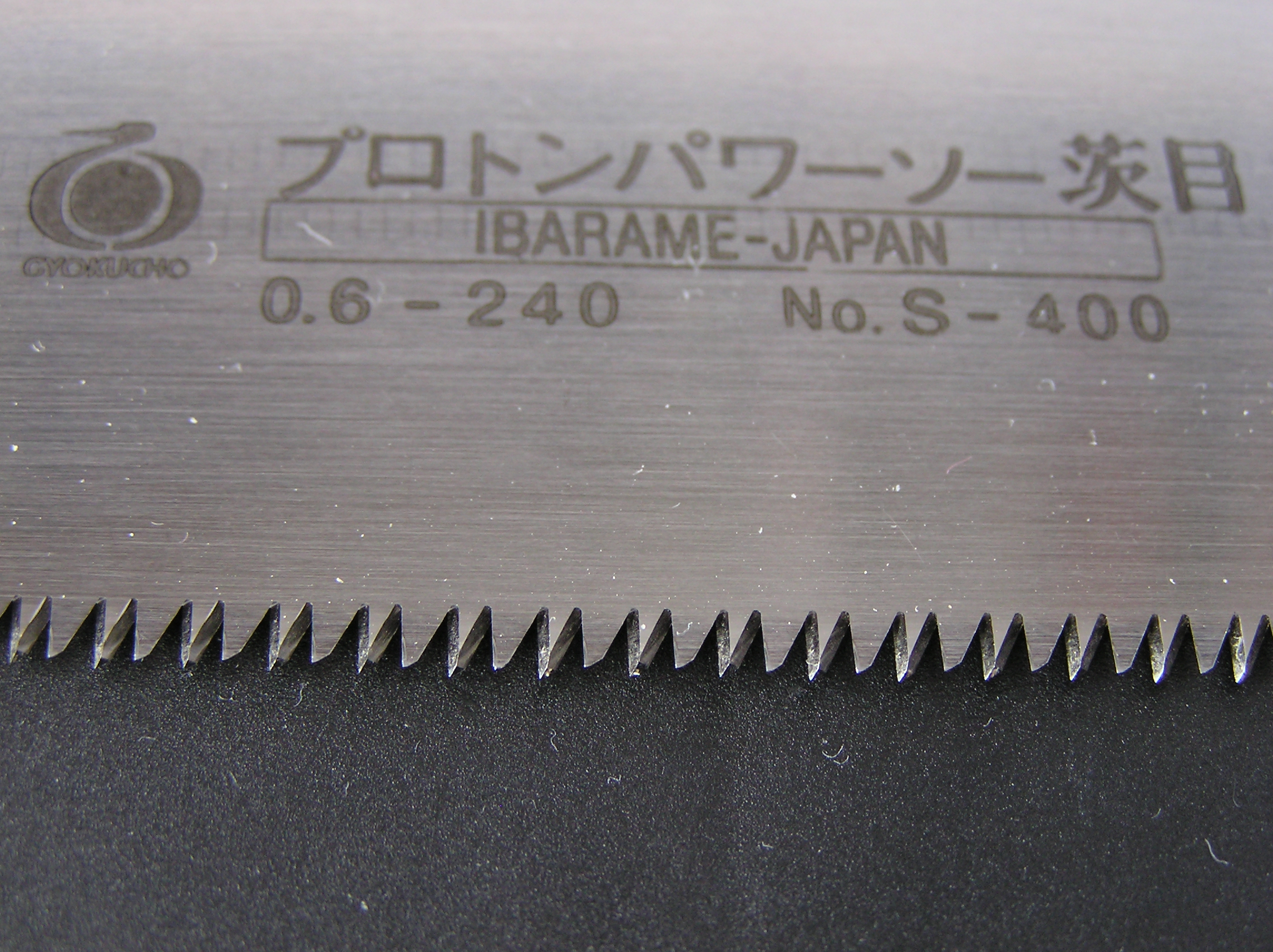 Japanese Saw named Katabi detail